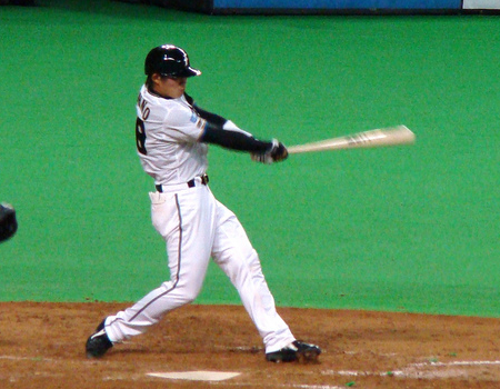 Shota Ohno, catcher of the Hokkaido Nippon-Ham Fighters, at Sapporo Dome.